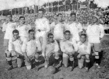 The Brazil national football team that won the Copa América in 1919. Standing: Bianco, Sergio, Marcos, Amílcar, Galo, Píndaro; Kneeling: Luiz Menezes, Neco, Friedenreich, Haroldo, Arnaldo.